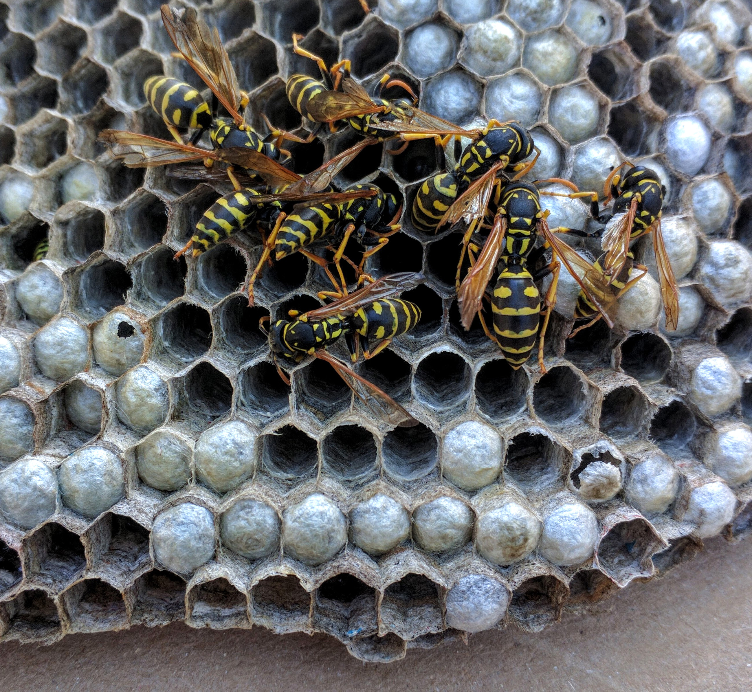 Paper wasps (Polistes dominula) on part of a large nest, in Santa Clara County, California, July 2016 (these are freshly dead)